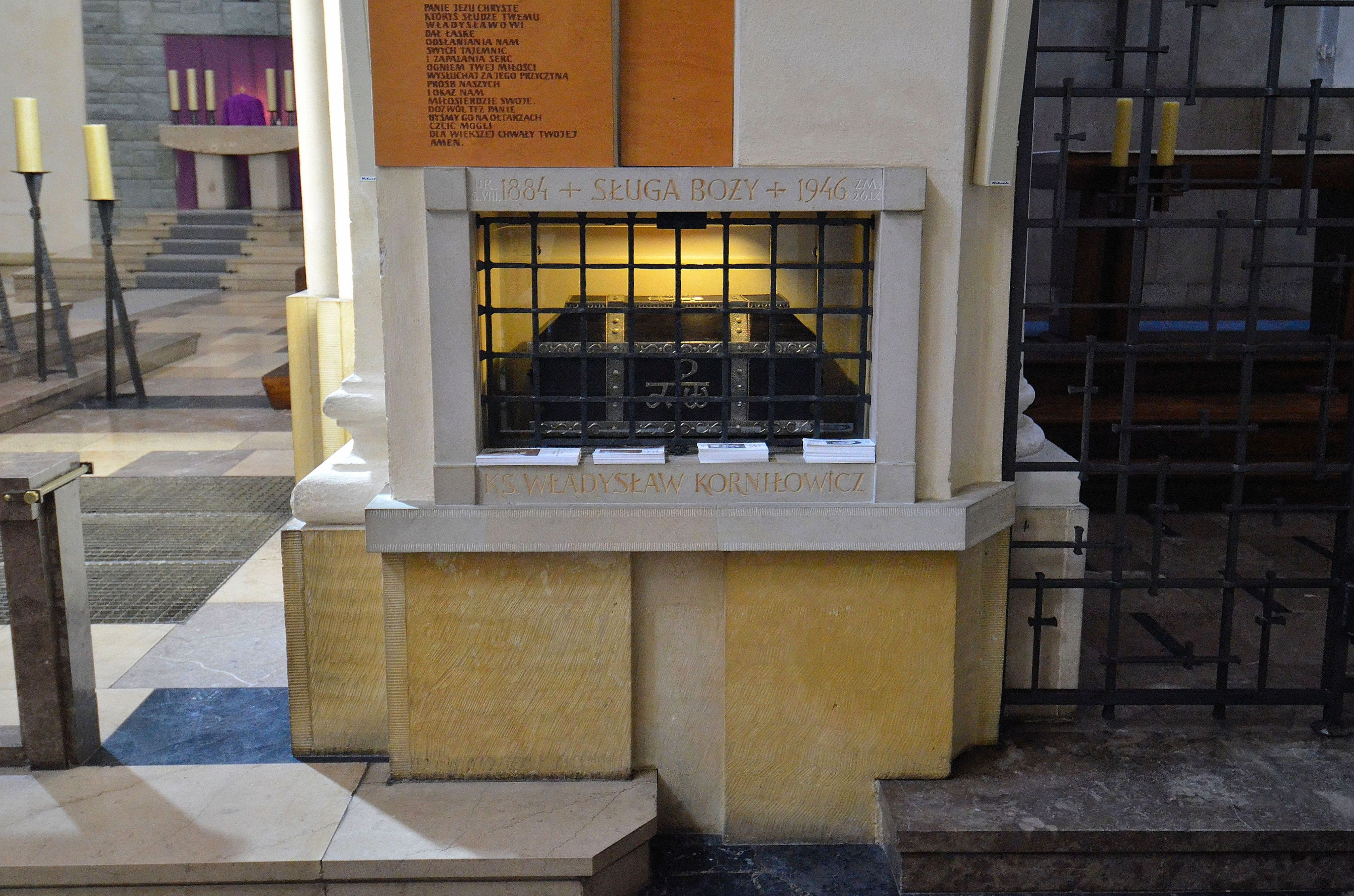 Remains of rev. Władysław Korniłowicz in Saint Martin church in Warsaw